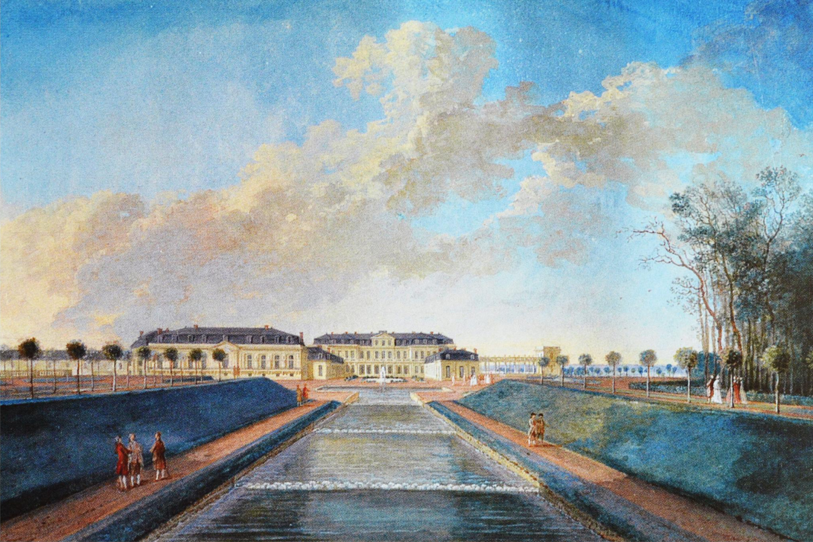 View of the south (garden) facade of the Château de Chanteloup near Amboise, taken from the middle of the cascade